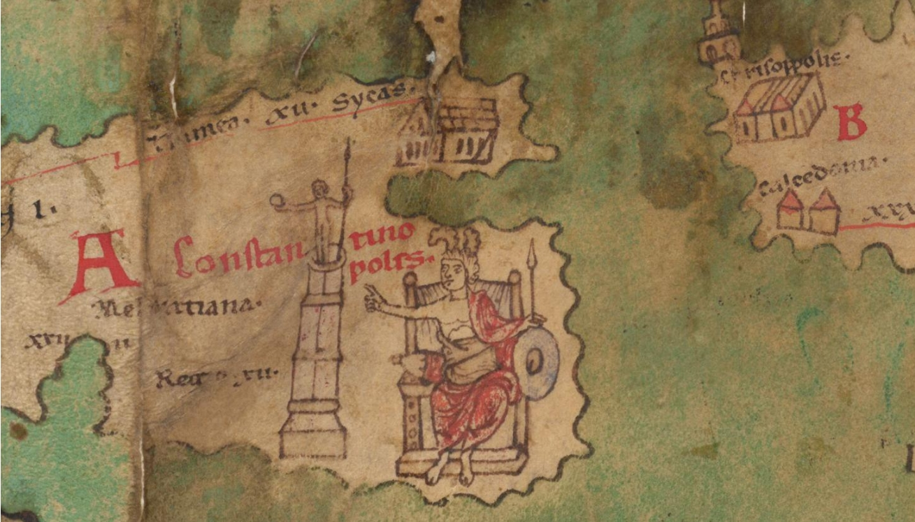 Tabula Peutingeriana (Codex Vindobonensis 324): detail of Constantinople and the Bosporus